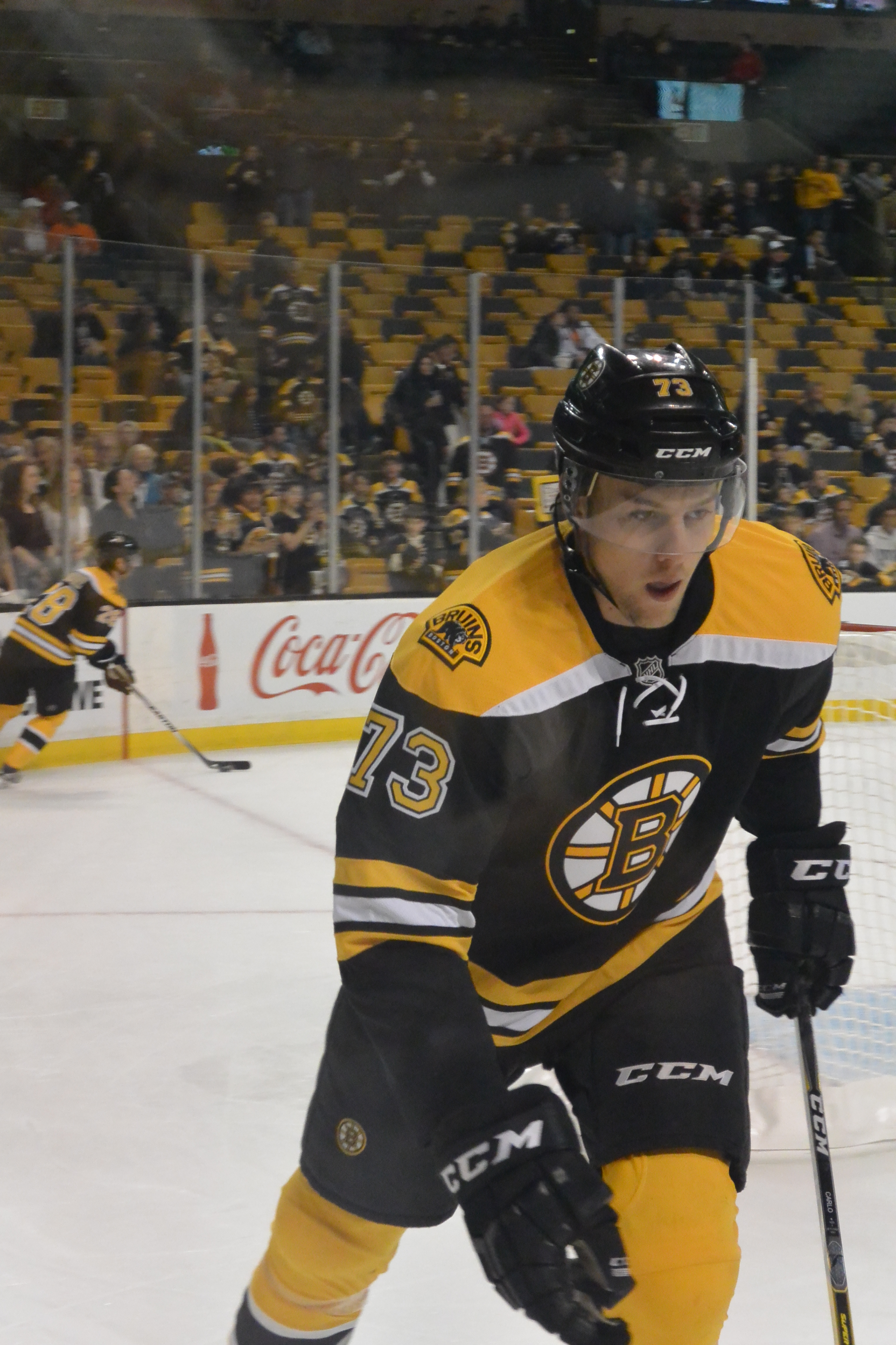 Brandon Carlo during Bruins warm ups of 10-8-16 preseason game.